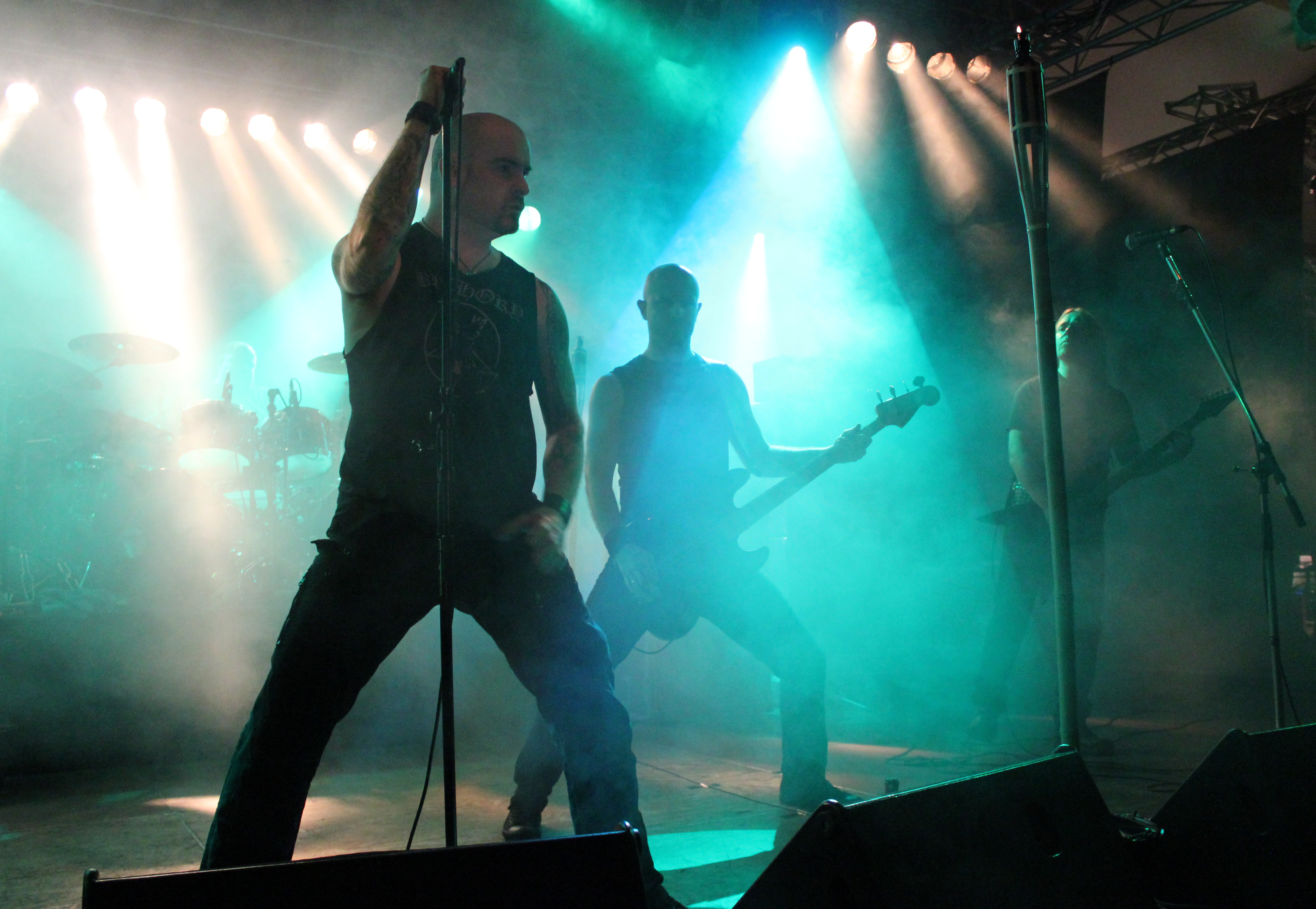 "Twilight of the Gods" live at the Ragnarök-Festival 2011